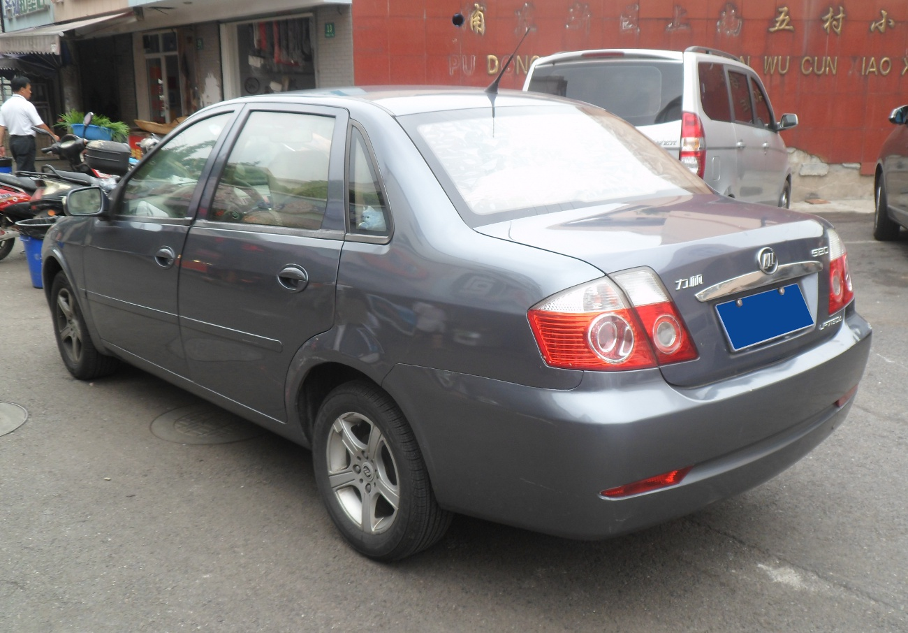 Lifan 520 photographed in Shanghai, China.